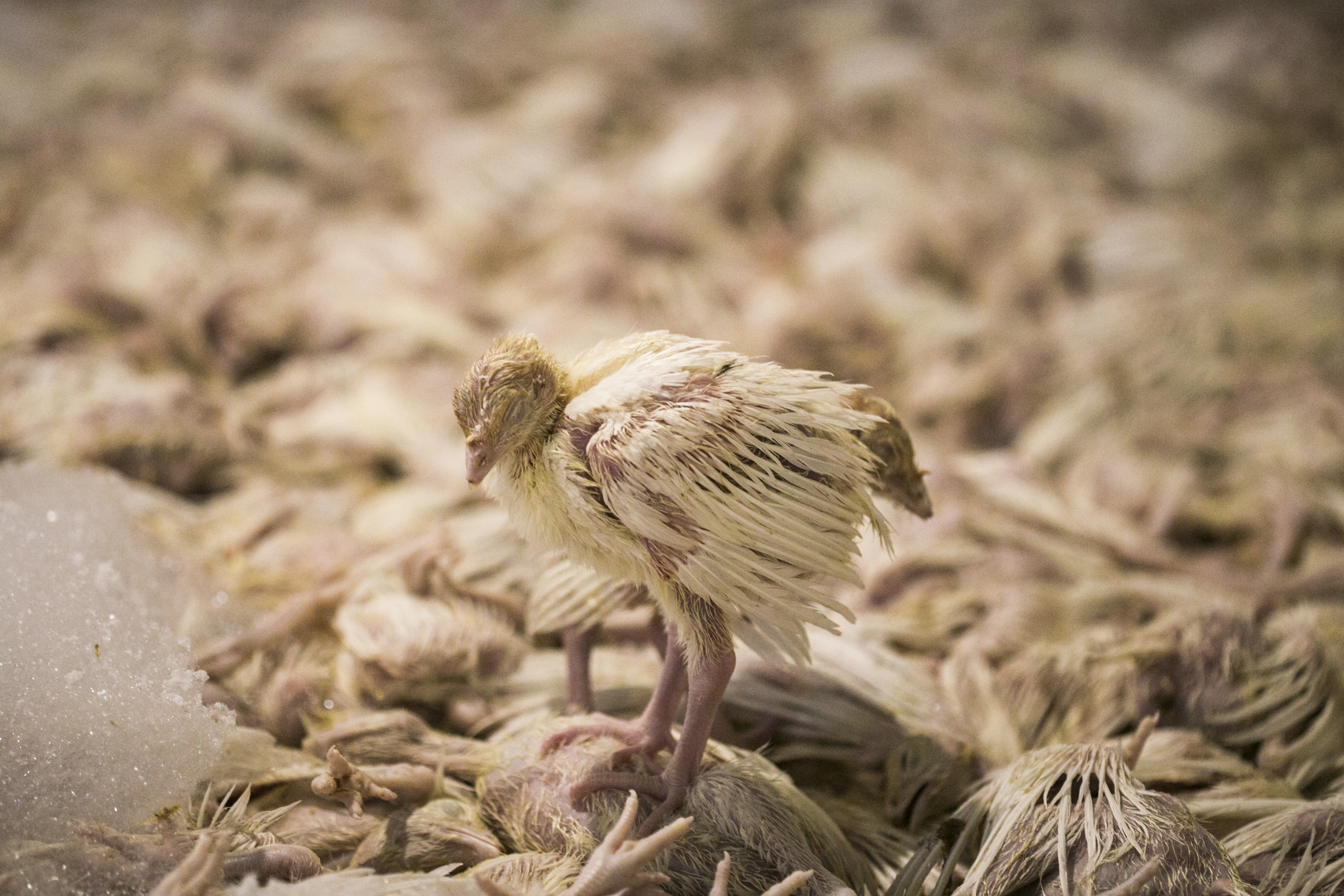 Avian influenza, poultry depopulation, extermination of chicks by foam, Israel